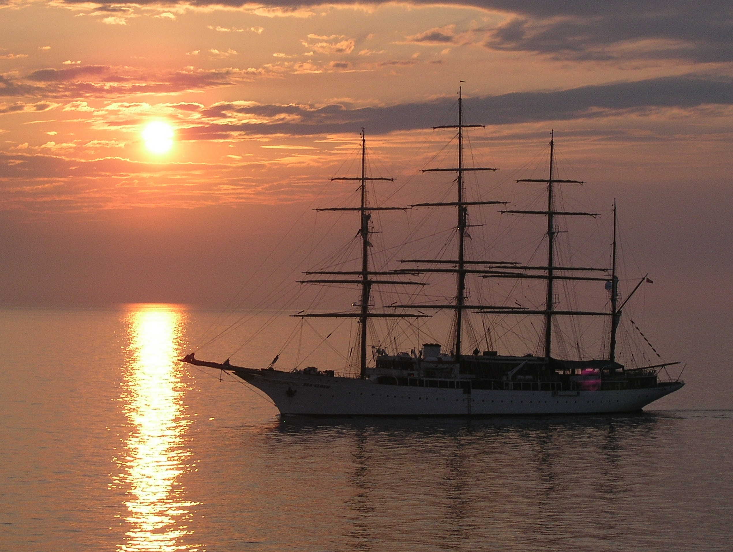 Sea Cloud (ship, 1931) at sunrise near Venice, 2004-08-01